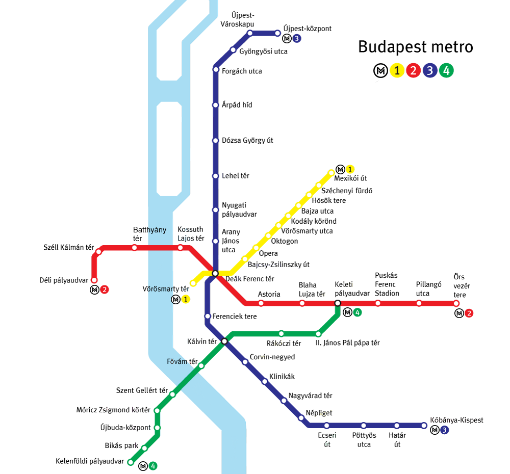 Map of the Budapest Metro network